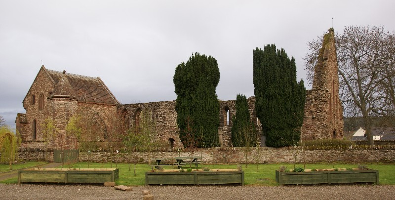 Beauly Priory, Beauly, Scotland